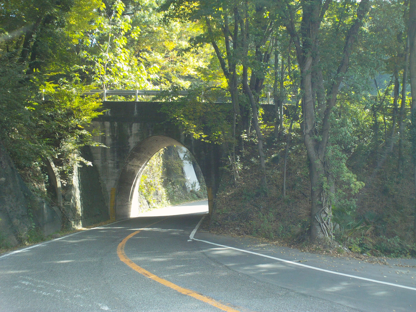 The Yamanashi Prefectural Road Route 17 in Nirasaki City